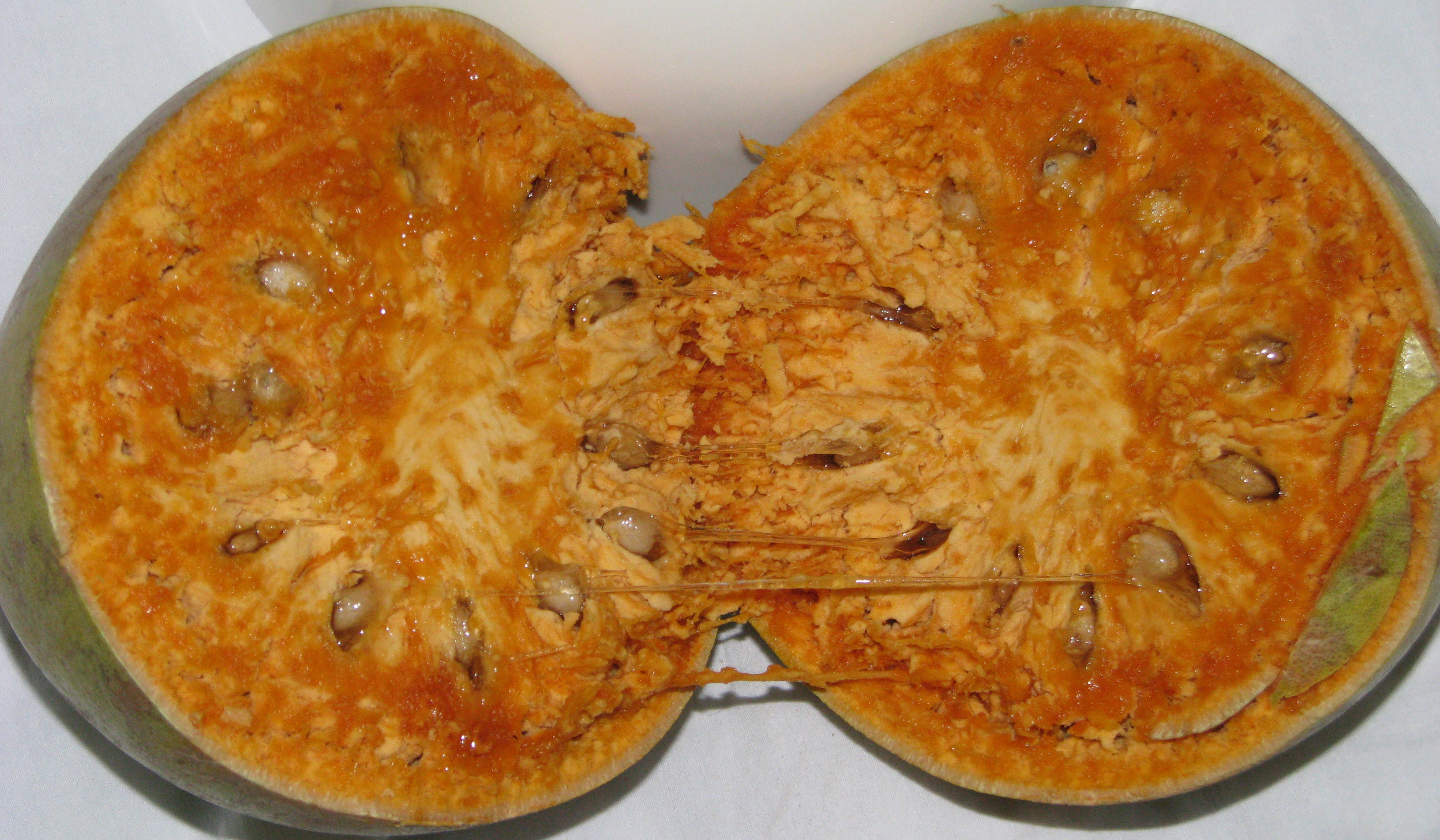 open fruit of limonia acidissima